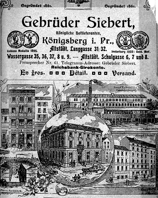 Firma Siebert in Königsberg